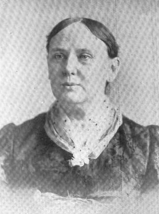 Photographic image of American writer Charlotte Fiske Bates Rogé (1838-1916), cropped to remove a replicated signature. The Magazine of Poetry: A Quarterly Review, published by Charles Wells Moulton, Buffalo, New York, vol. 5 (1893), p. 142.